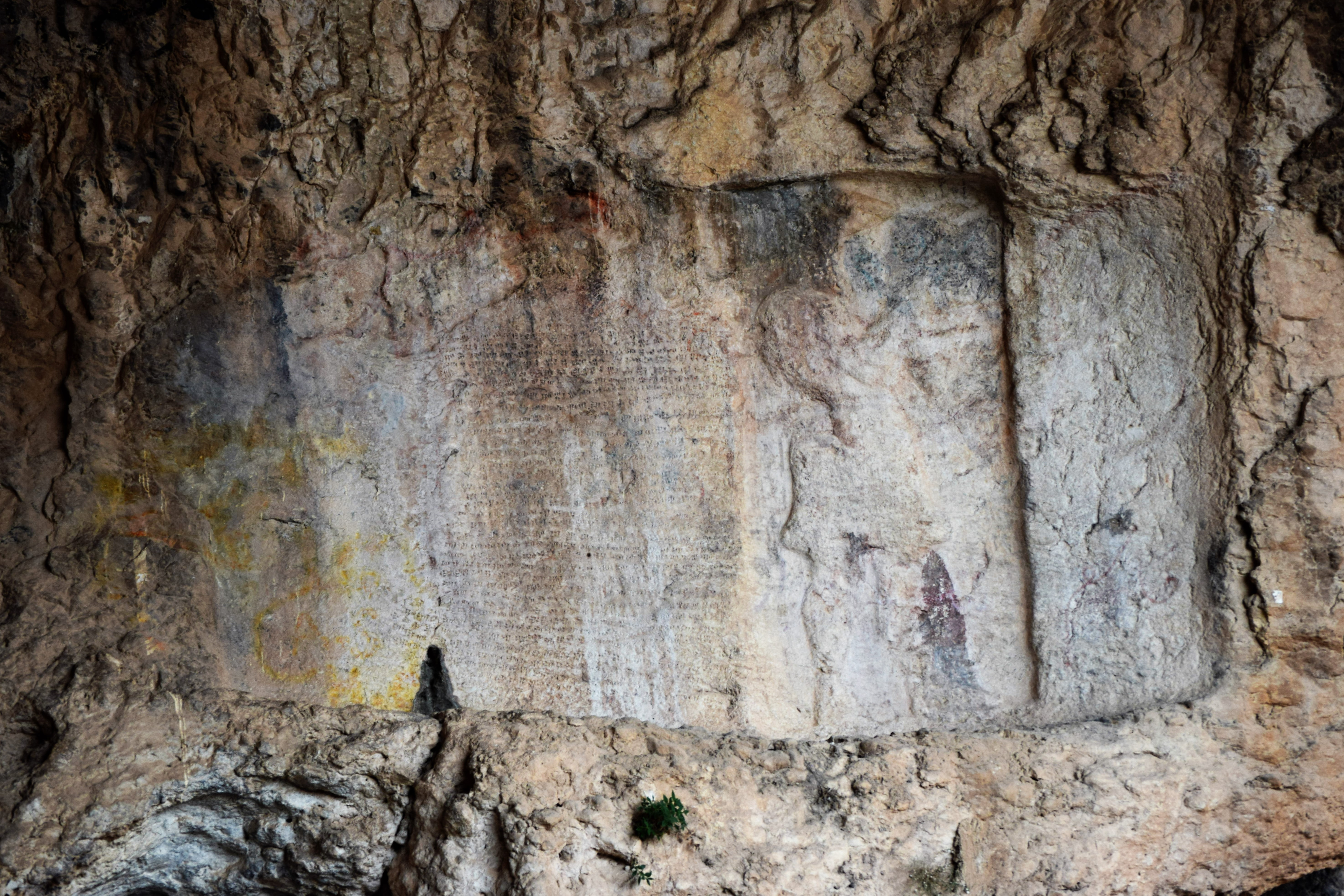 Elamite Relief of Shekaft-e Salman III